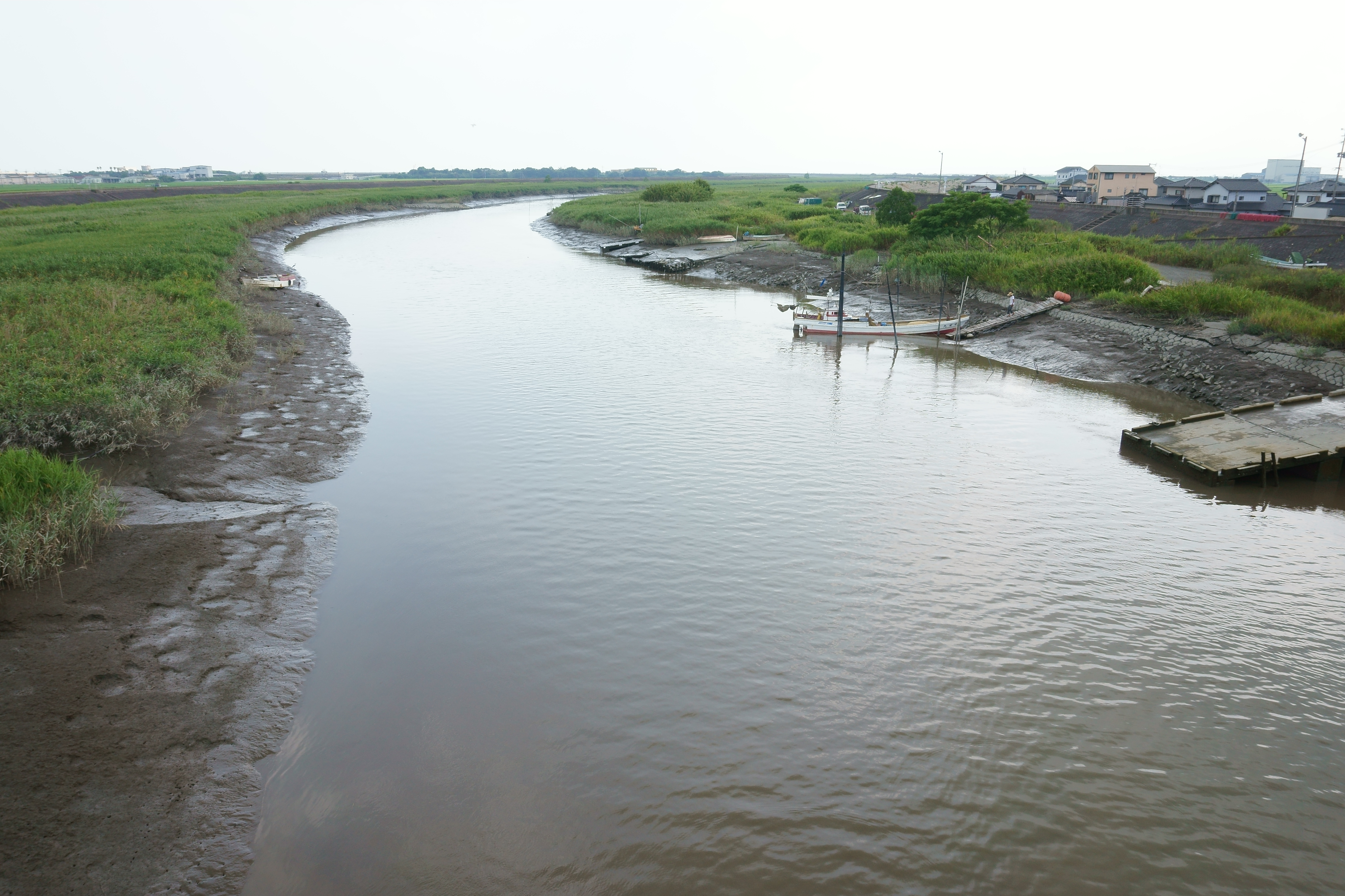 The lower stream of Kase River between Kase and Kubota, Saga city, Saga prefecture. Taken from Kase-ohashi bridge in Route 444.